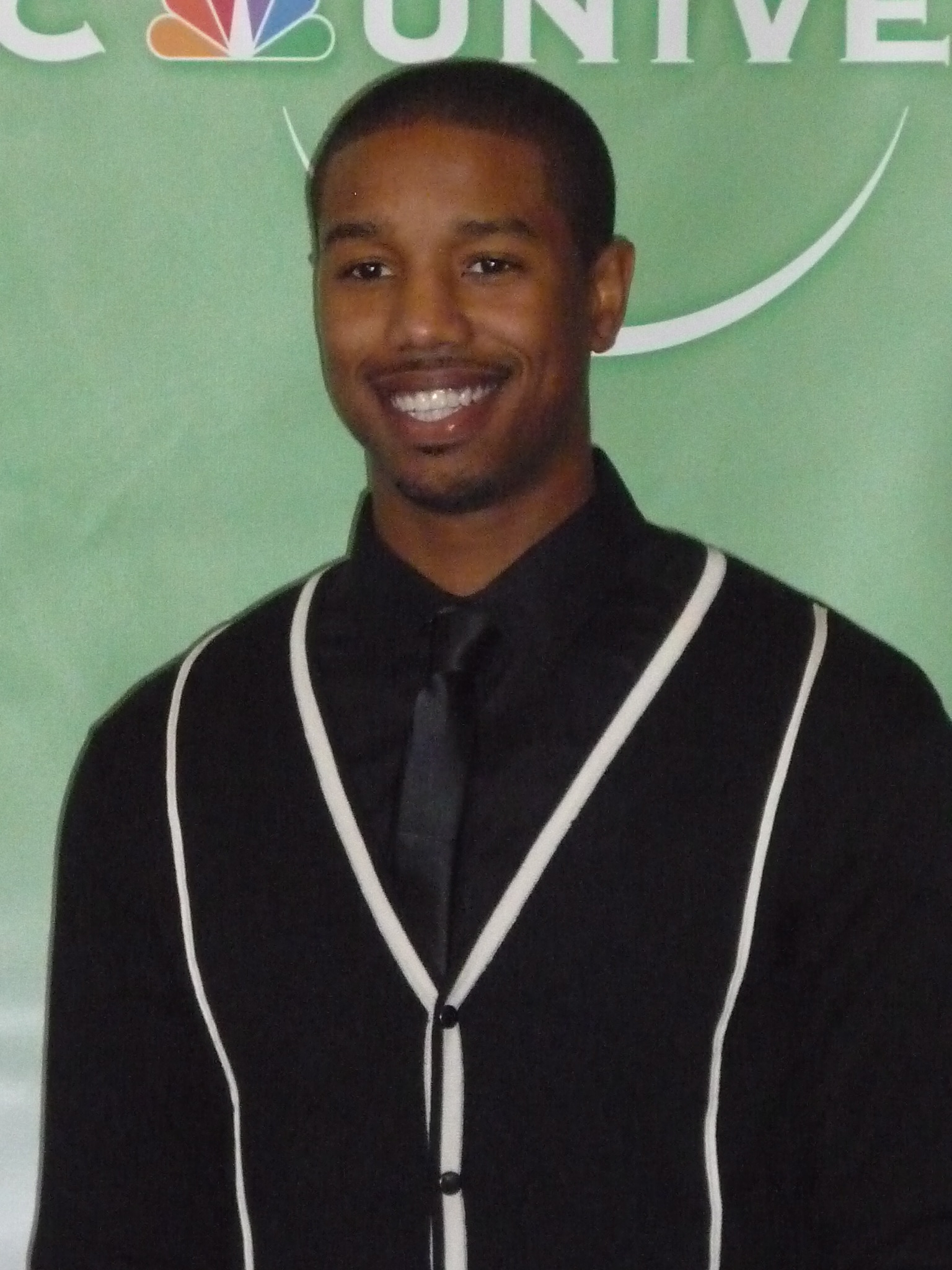 Michael B. Jordan at the NBC-Universal Party